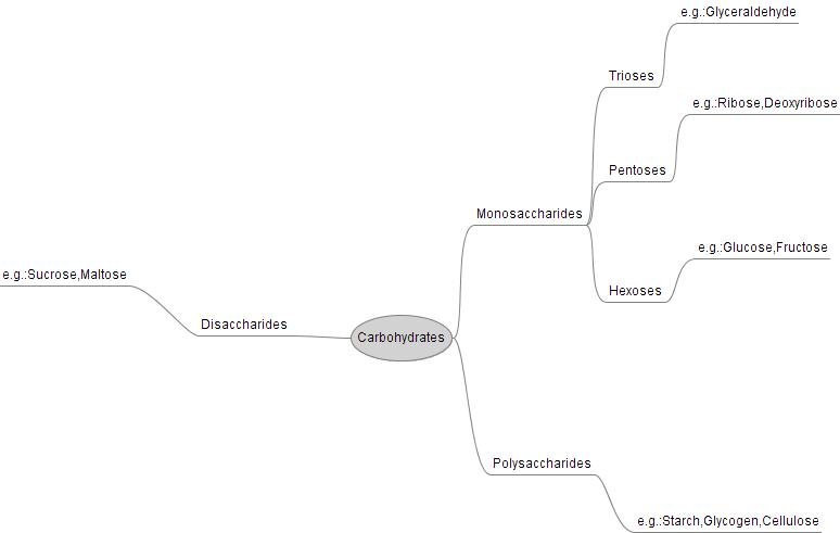 A mindmap made with Freemind